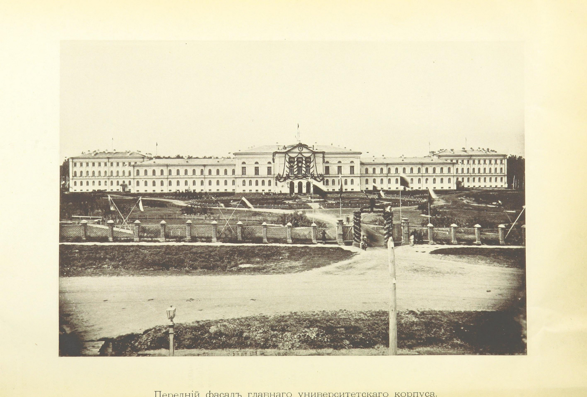 Image taken from: Title: "Первый университетъ въ Сибири ... Съ 8 фотогравюрами, etc" Author: Imperatorskīĭ Tomskīĭ Universitet (TOMSK) Shelfmark: "British Library HMNTS 10290.f.4." Page: 100 Place of Publishing: Томскъ Date of Publishing: 1889 Issuance: monographic Identifier: 003652467 Explore: Find this item in the British Library catalogue, 'Explore'. Download the PDF for this book (volume: 0) Image found on book scan 100 (NB not necessarily a page number) Download the OCR-derived text for this volume: (plain text) or (json) Click here to see all the illustrations in this book and click here to browse other illustrations published in books in the same year. Order a higher quality version from here.